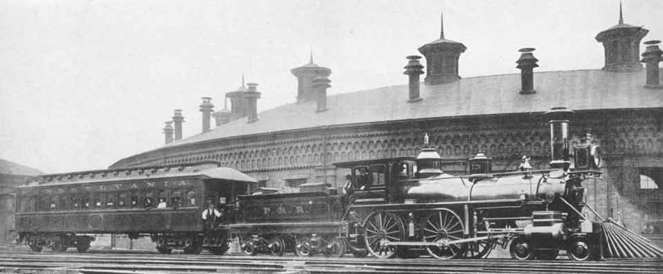 PRR D1 locomotive fitted with experimental Westinghouse air brake equipment during the 1869 trials of this on the Pennsylvania Railroad that led to the road's adoption of it in 1870.